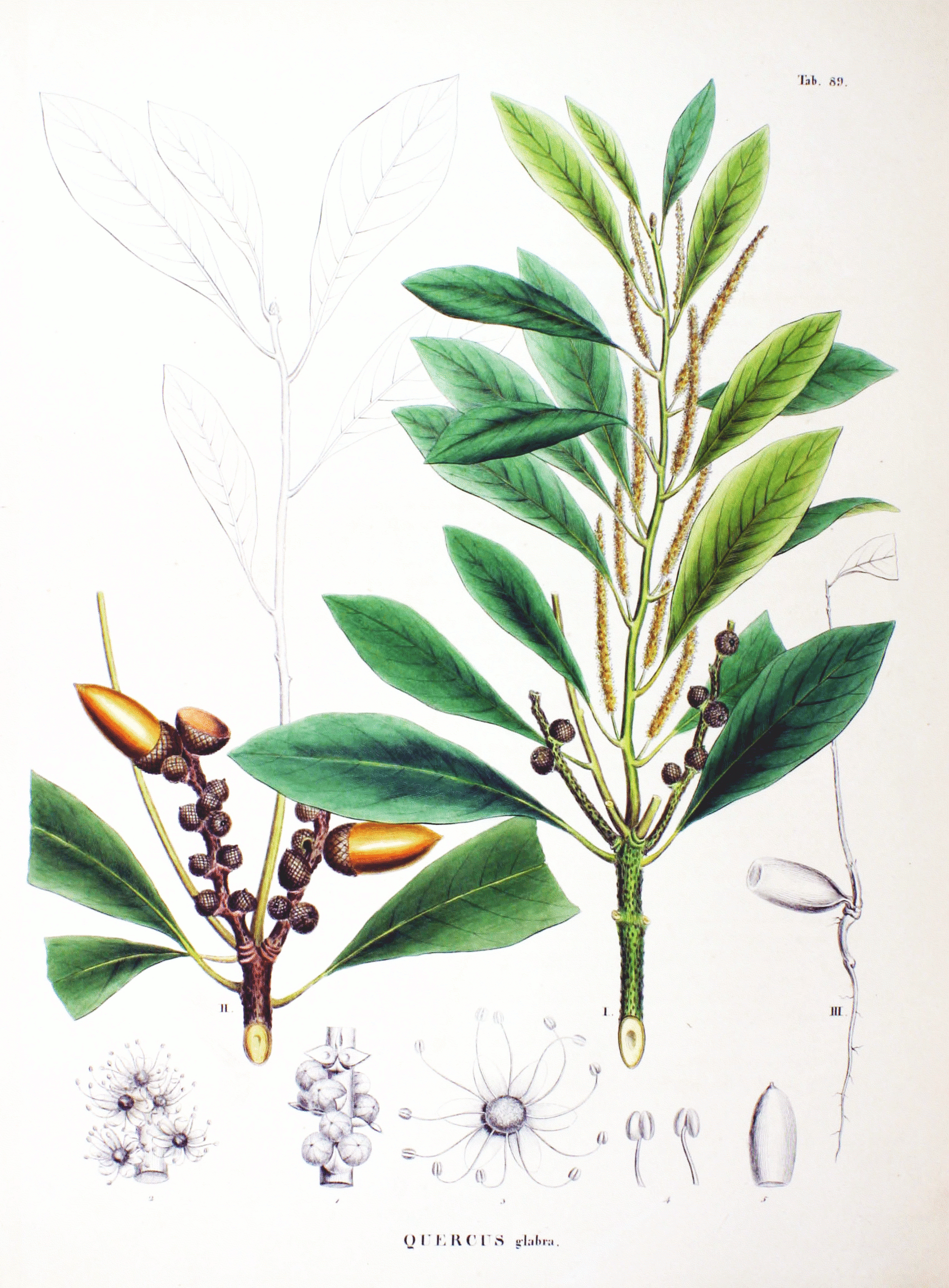 Plate from book Lithocarpus glaber (syn. Quercus glabra)